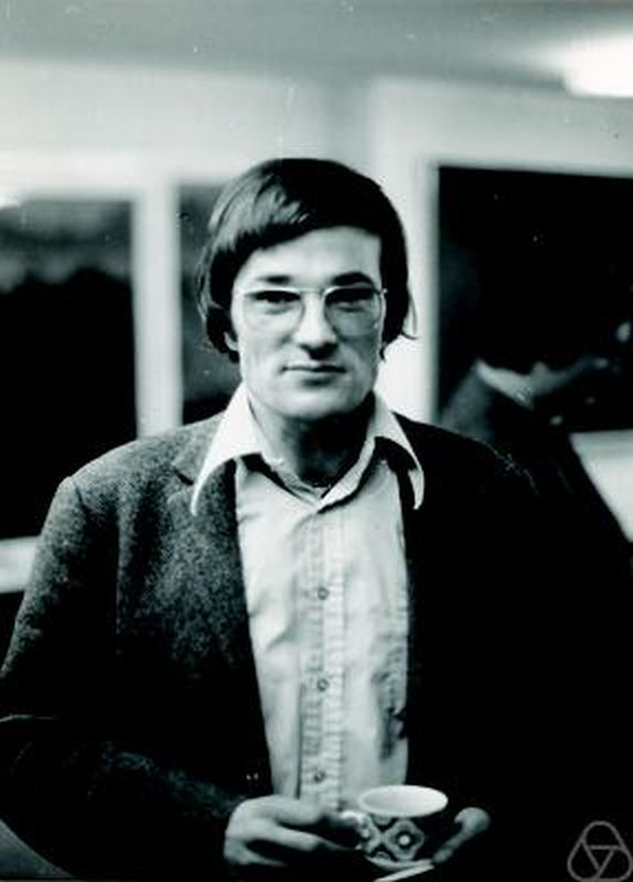 Michael Schneider, Erlangen 1977